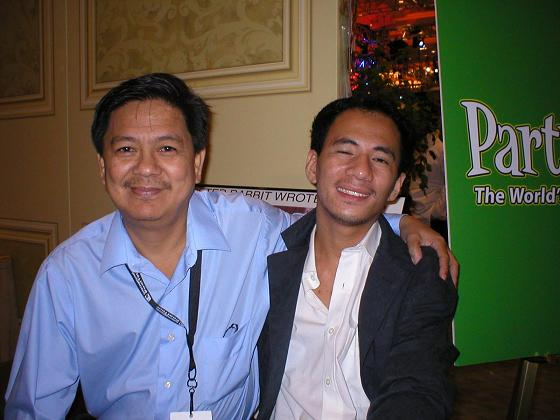 Filipino Pool Champions Jose Amang Parica and Dennis Orcullo at IPT tournament in Las Vegas 2006